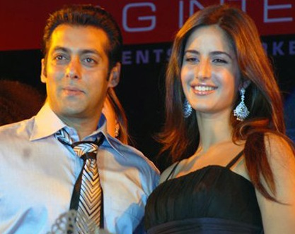 Salman Khan and Katrina Kaif at fashion show